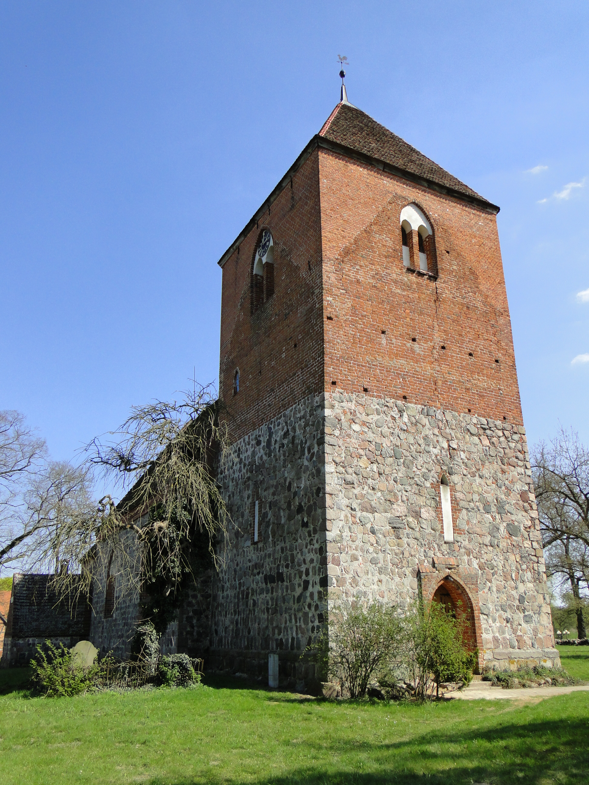 Church in Lohmen, district Güstrow, Mecklenburg-Vorpommern, Germany